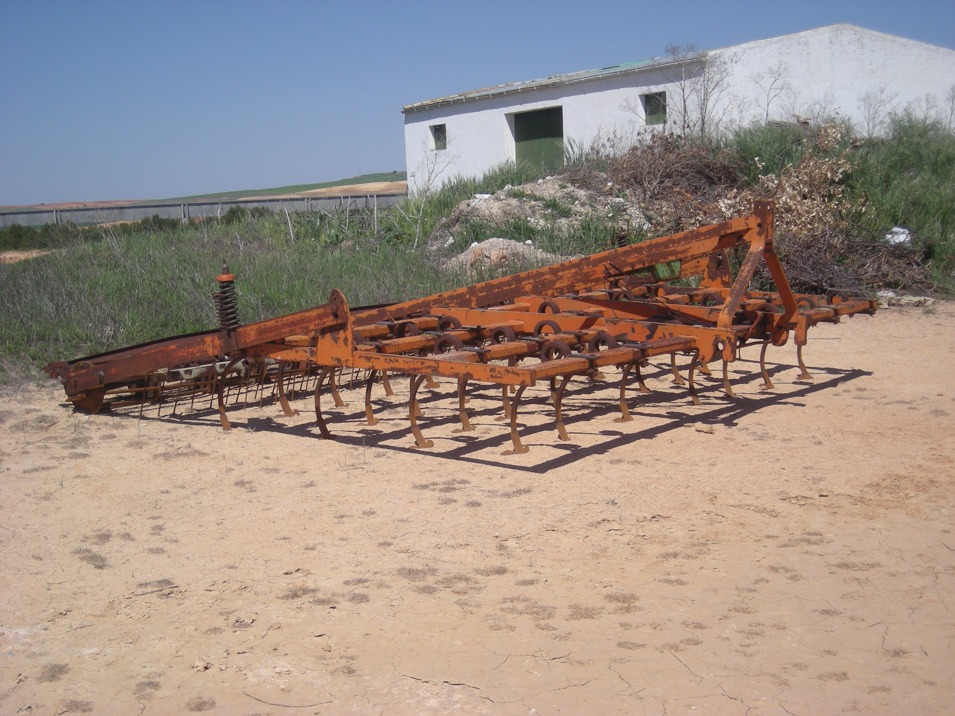 Cultivator, Cuenca, Spain.